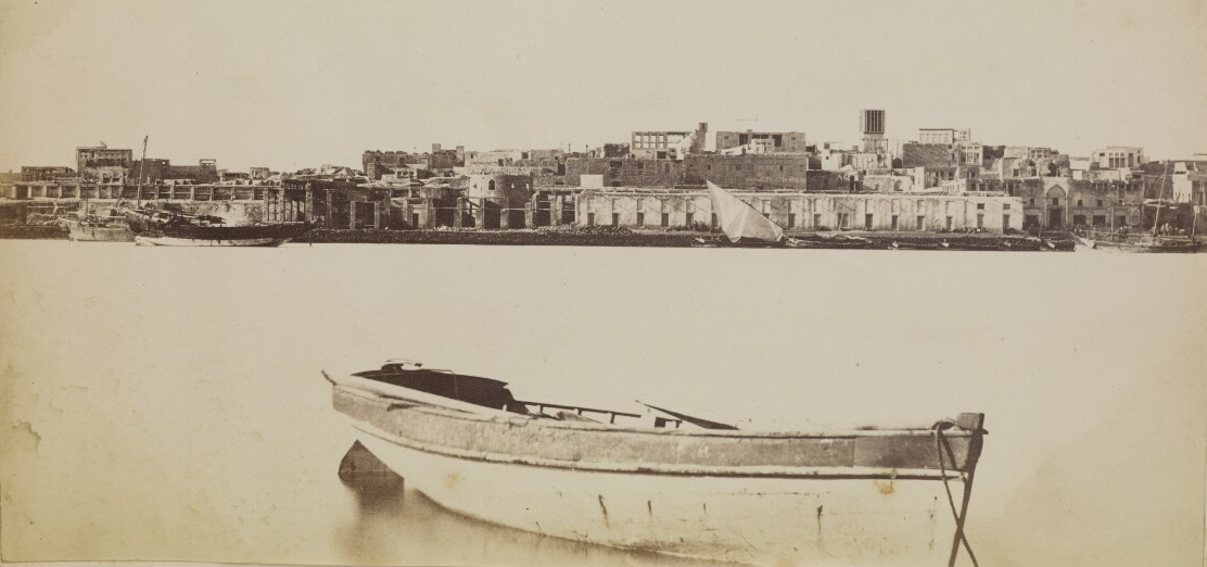 General view of the sea-front at Bushire. A dhow with a lateen sail can be seen immediately to the right of the centre along the horizon. The highest structure along the horizon is a wind tower, which can be seen right of centre. Obtained from .